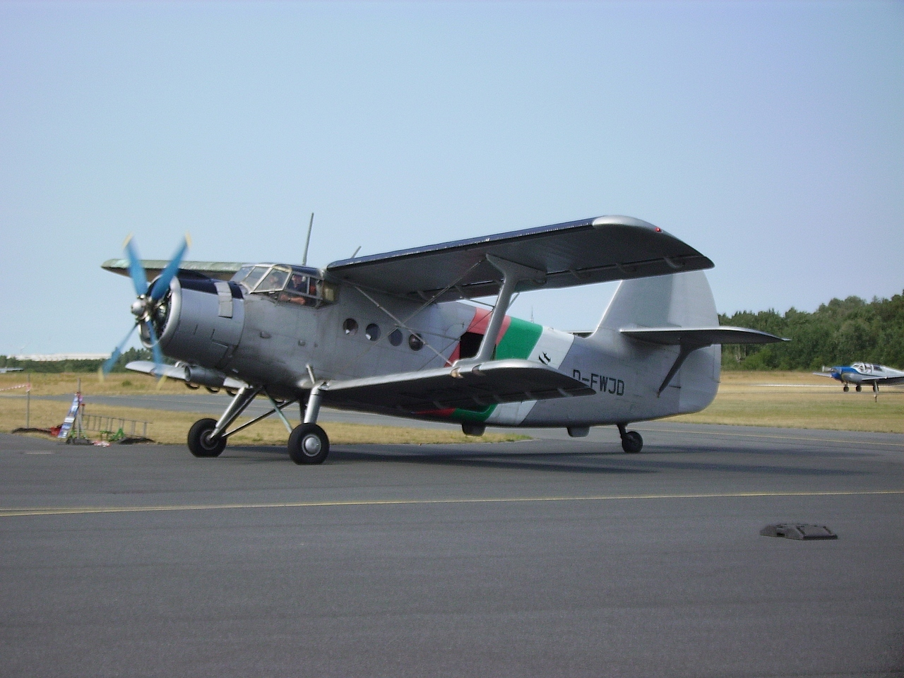 An Antonov An-2 with German registration